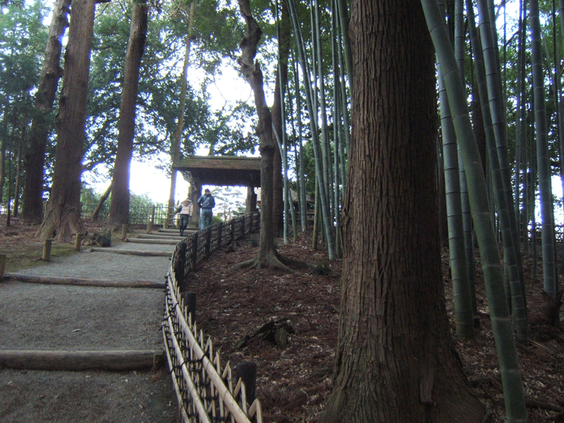 Bamboo grove and cedar woods at Kairaku-en. Mito, Ibaraki, Japan.